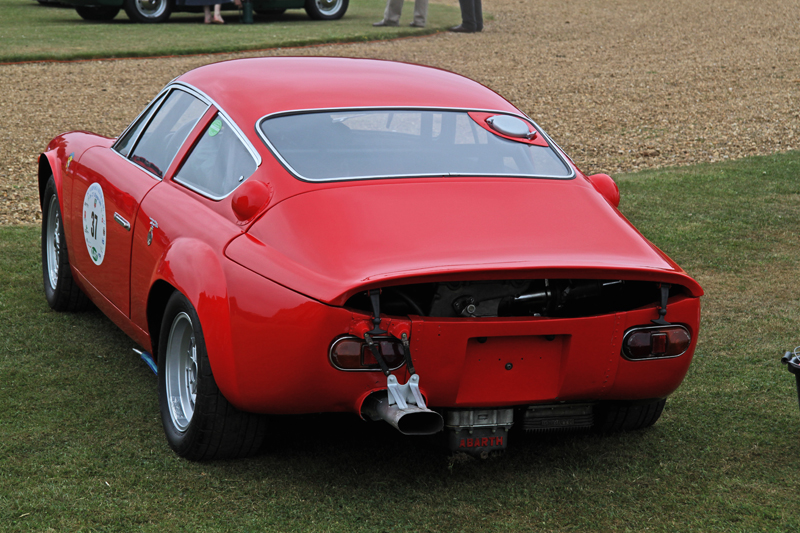 Abarth Simca 2000. The exhaust can be seen hanging from brackets attached to rubber straps - a design feature !